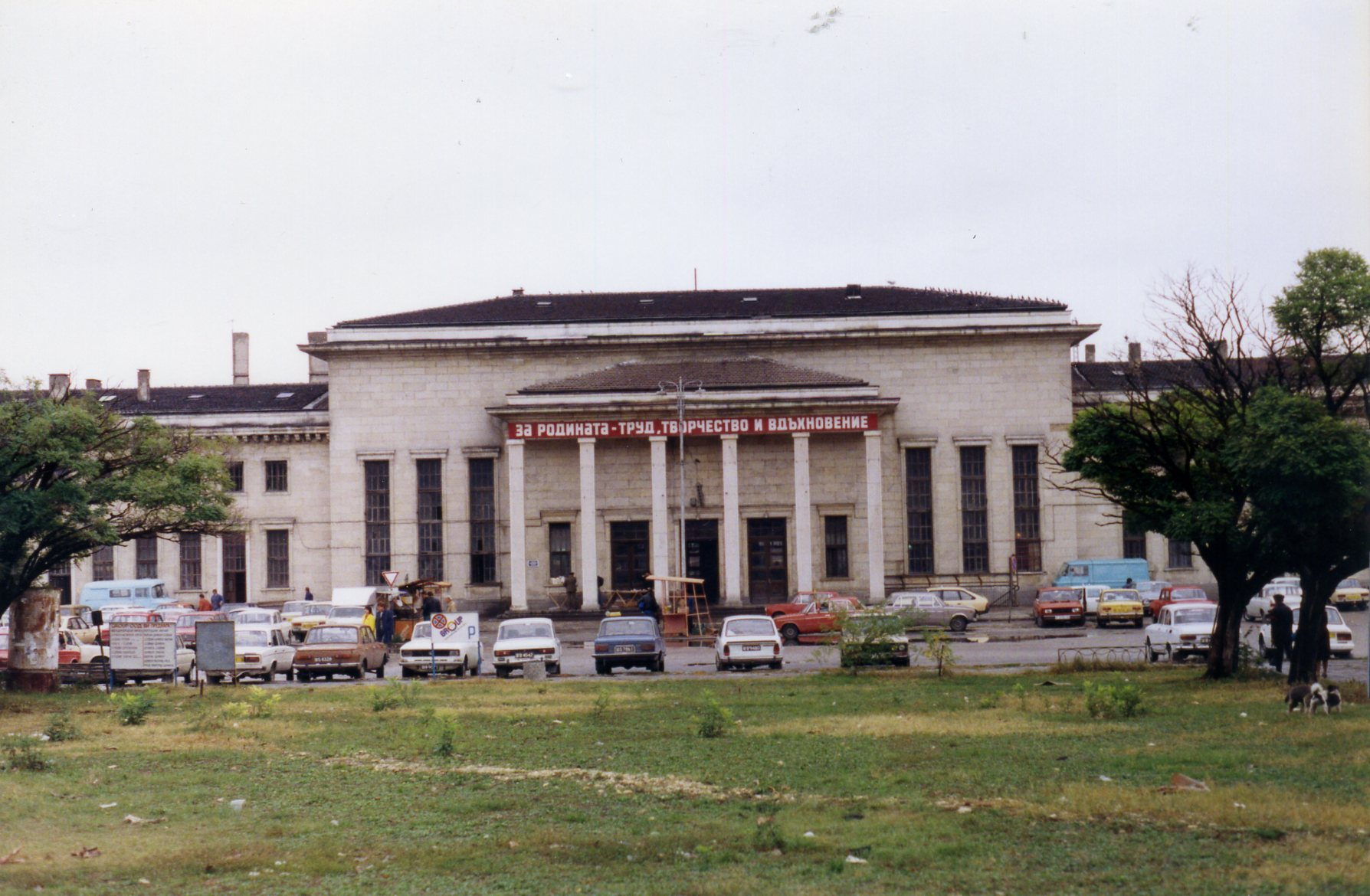 Train station in Shumen, Bulgaria, October 1993. The slogan on it reads "For the Fatherland - labor, creativity and inspiration"